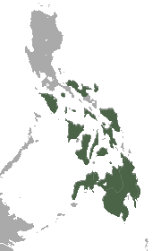 Harpy Fruit Bat (Harpyionycteris whiteheadi) range